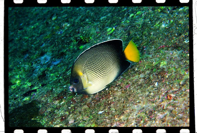 Apolemichthys xanthurus (Bennett, 1833)